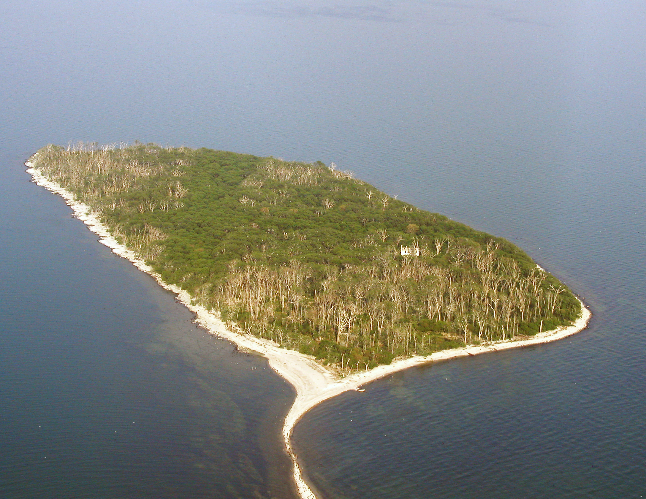 Aerial photo of Middle Island, Ontario Canada showing the remains of the last structure on the island.